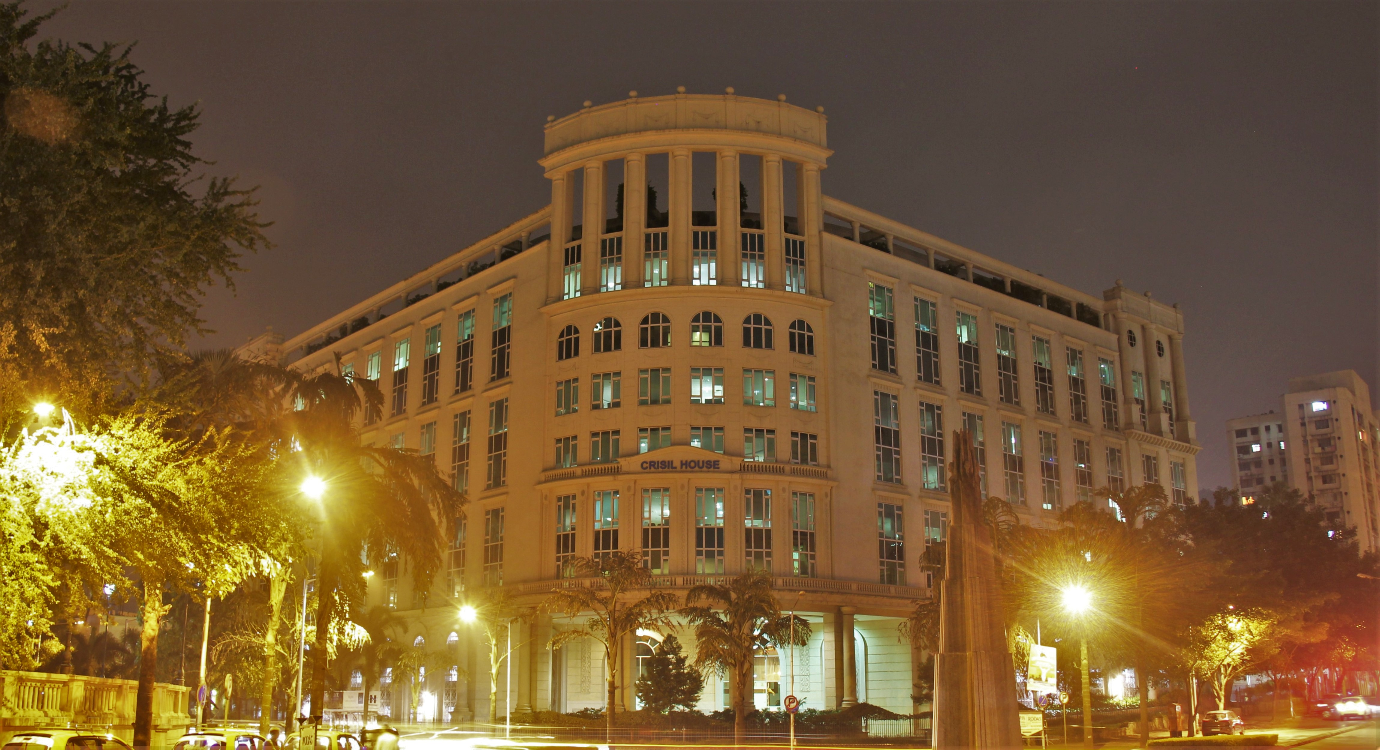 CRISIL House bhulding Hiranandani Powai, Mumbai